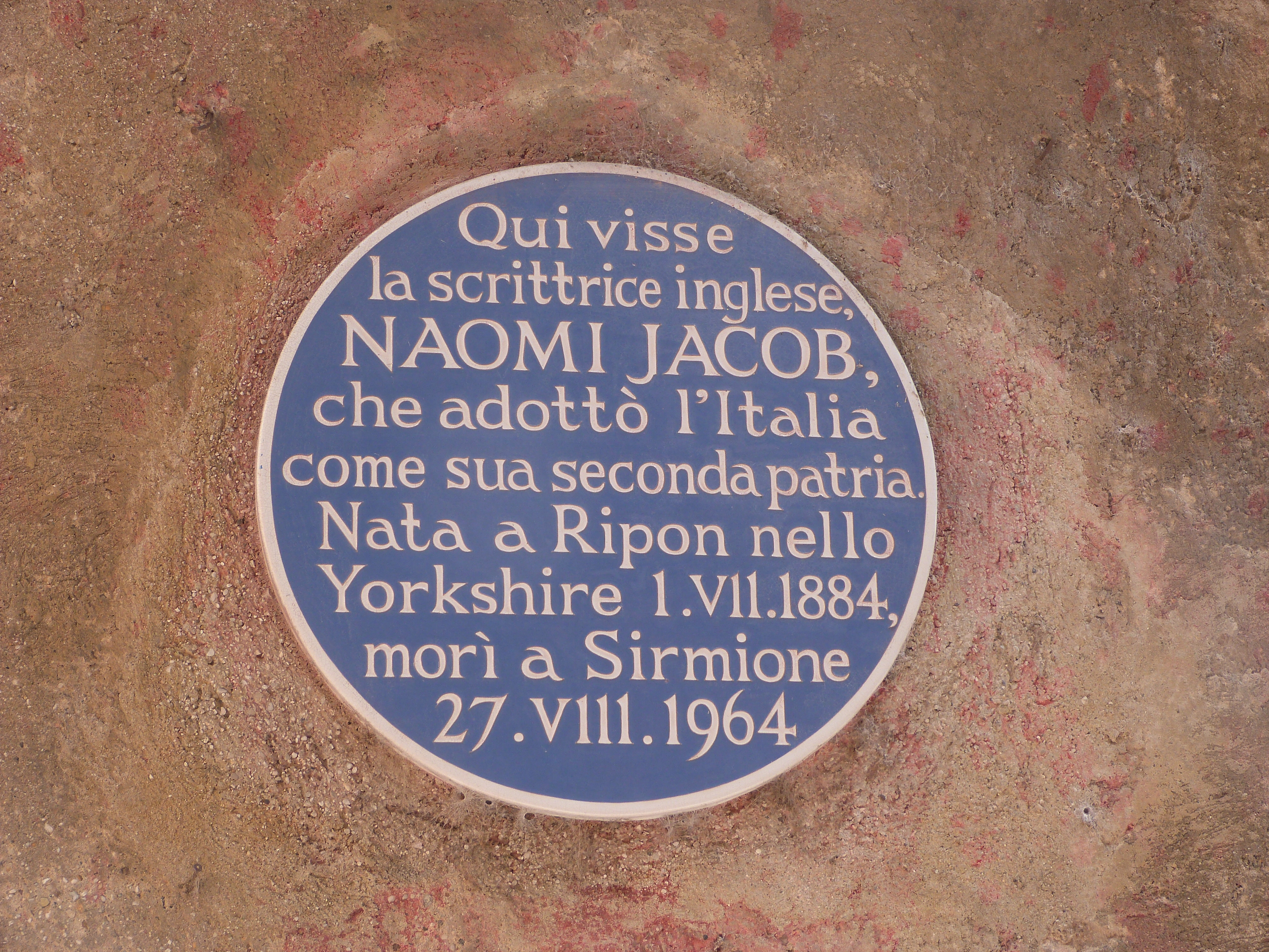 The Blue Plaque commemorating Naomi Jacob in Sirmione, on Lake Garda, Italy.